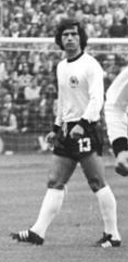 zoom-in